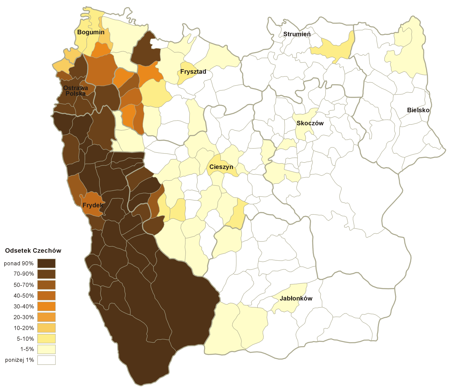 Percentage of Czech-speaking population in communes of the Duchy of Teschen according to the Austrian census 1910